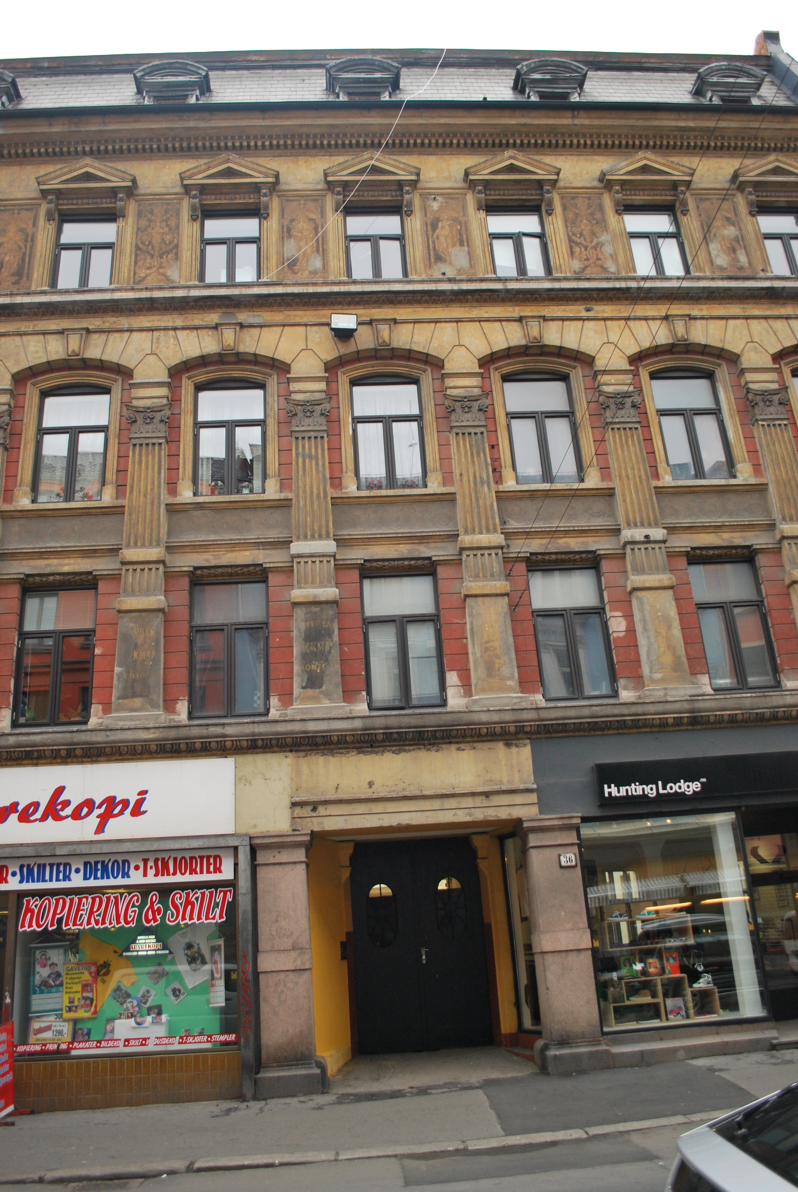 Torggata 36, Oslo, architect Anselm Liljestrøm, built 1888